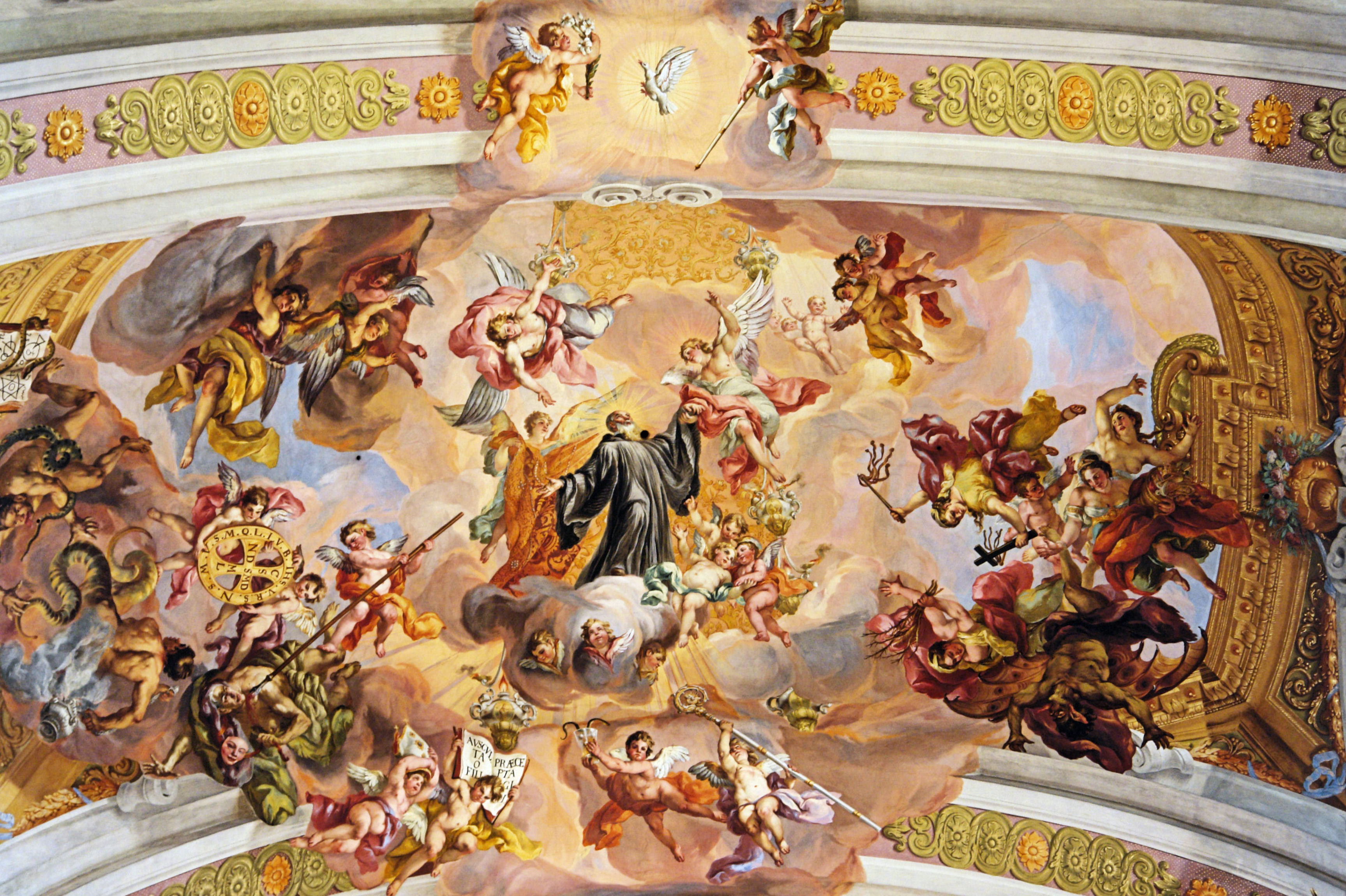 Ceiling fresco representing the St. Benedict's triumphal ascent to heaven by Johann Michael Rottmayr (1721) - Melk Abbey (Austria) [1] Representation of battle for virtue of a monk depicted of St. Benedict.